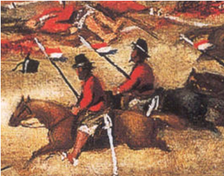 Batlle of Tuyutí, May 24th, 1866. Battalions 4 & 6 de la línea begin the battle. War between Paraguay against Argentina-Brasil-Uruguay. The painting is at the Museo Histórico Nacional of Buenos Aires. (detail)